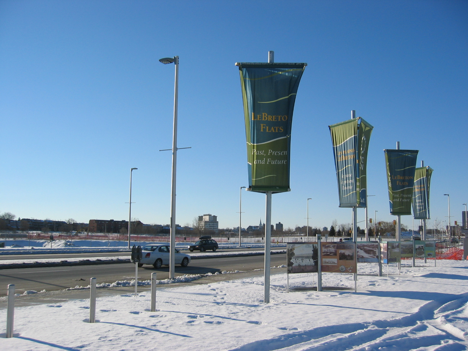 Lebreton Flats, December 2005. Photo taken by Skeezix1000.